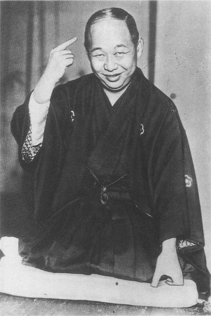 Kingoro Yanagiya (Rakugoka, Actor, Comedian)